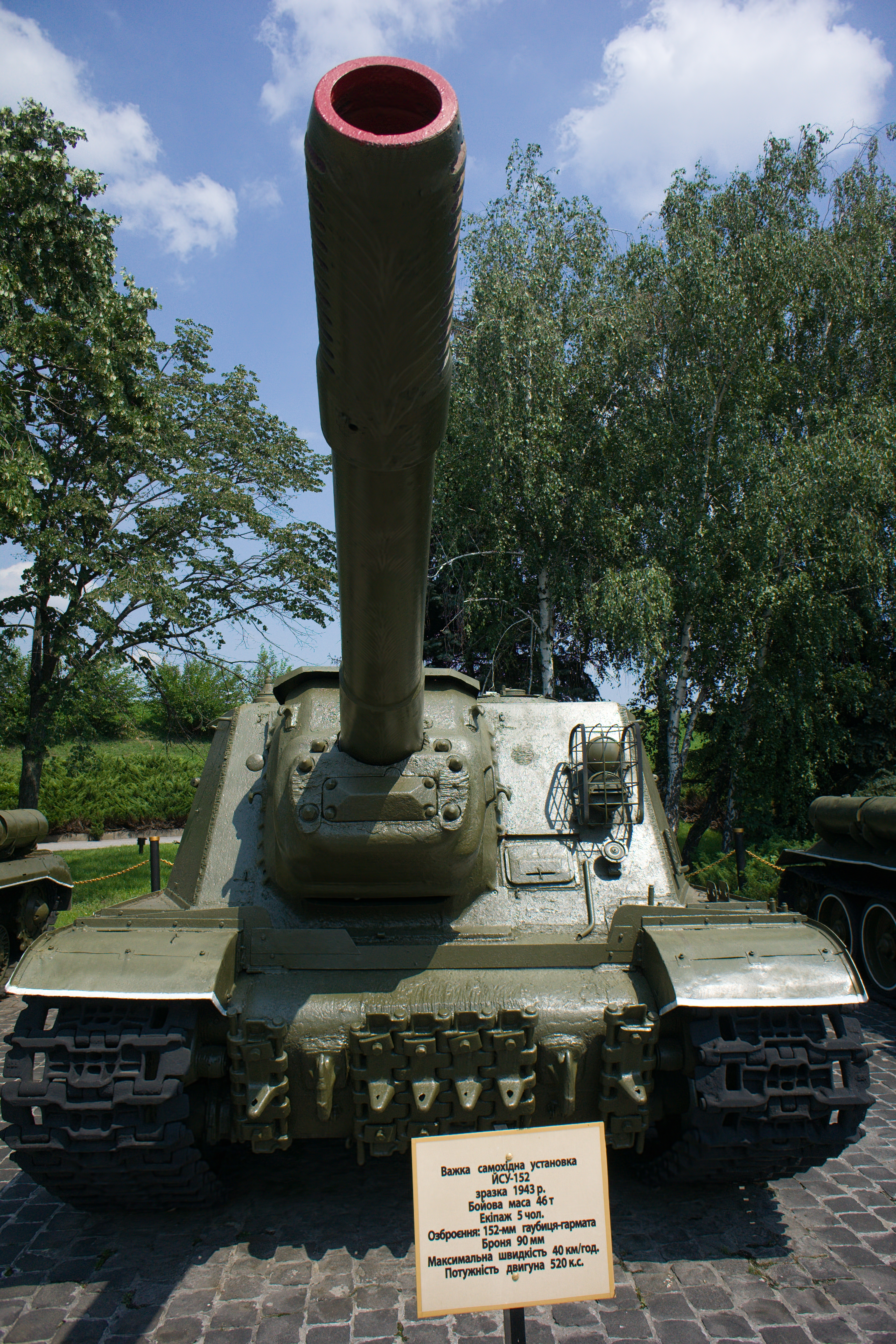 JSU-152, selfpropeled Soviet gun from 2. W.W.